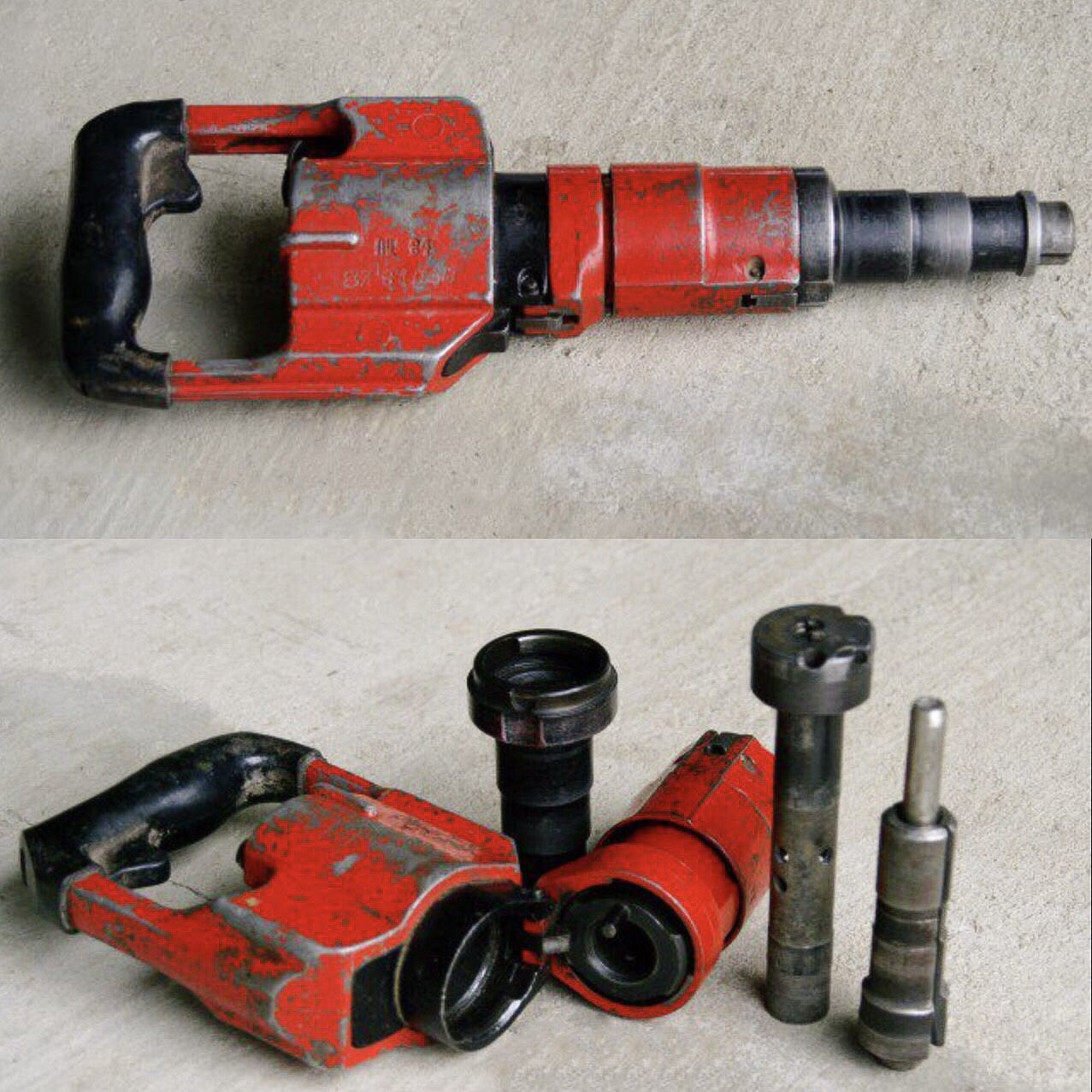 Montage pistol. Using gas power giving by blank cartridges to shot special nails into concrete.